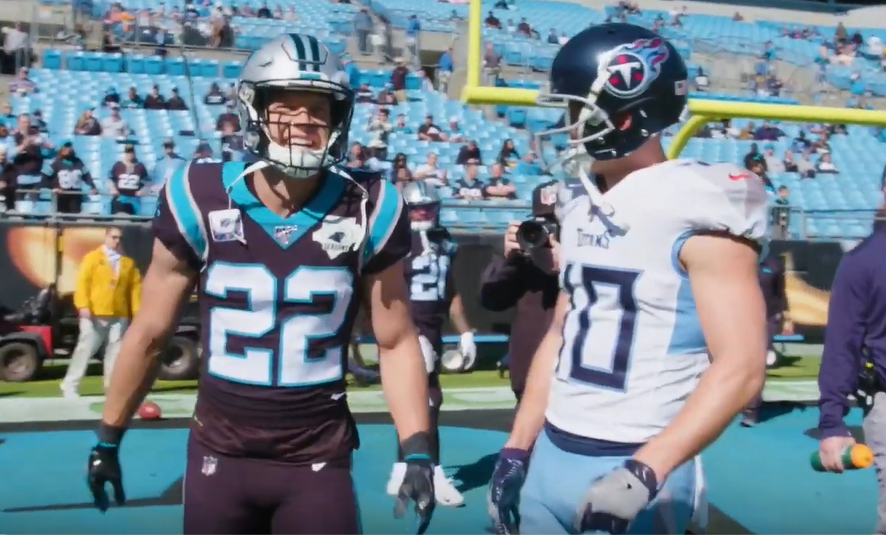 Christian McCaffrey 2019. Image from video Adam Humphries Mic'd Up vs. Panthers (Week 9) | Tennessee Titans, ~ 00:21